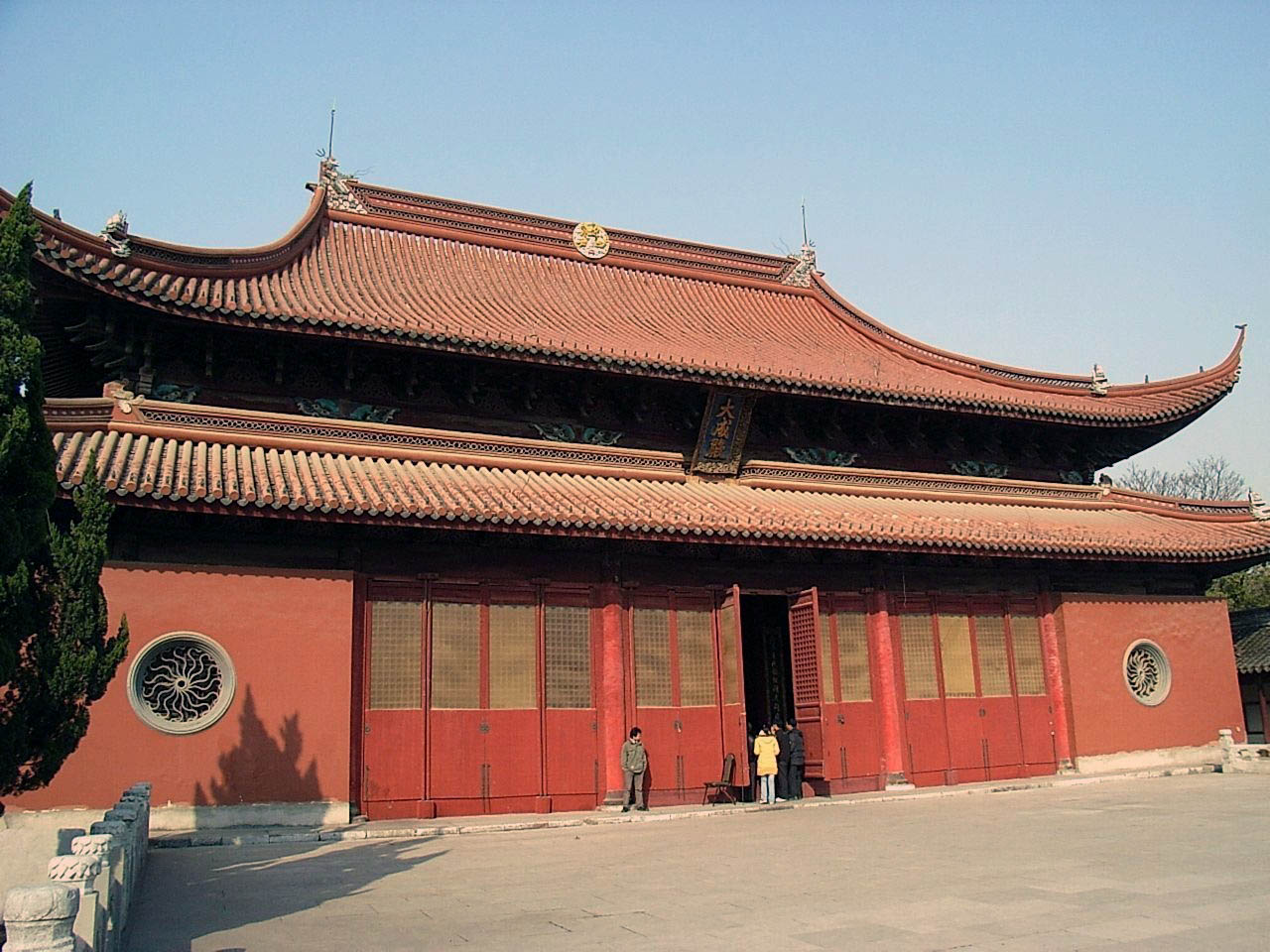 Confucius Temple (Wen Miao), Suzhou, China